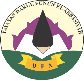 Logo Yayasan Darul Funun El-Abbasiyah